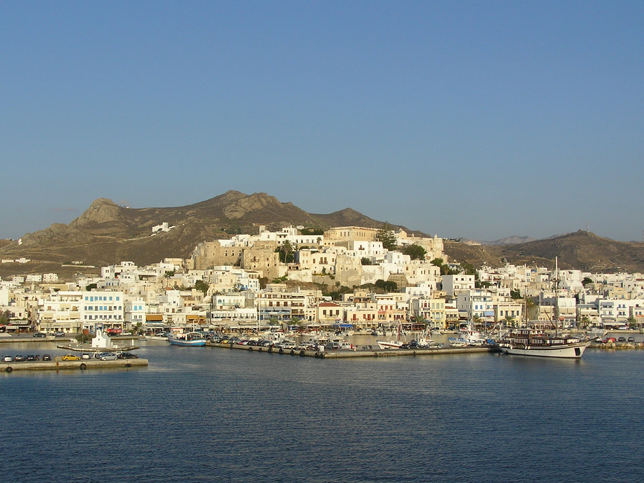 Naxos port